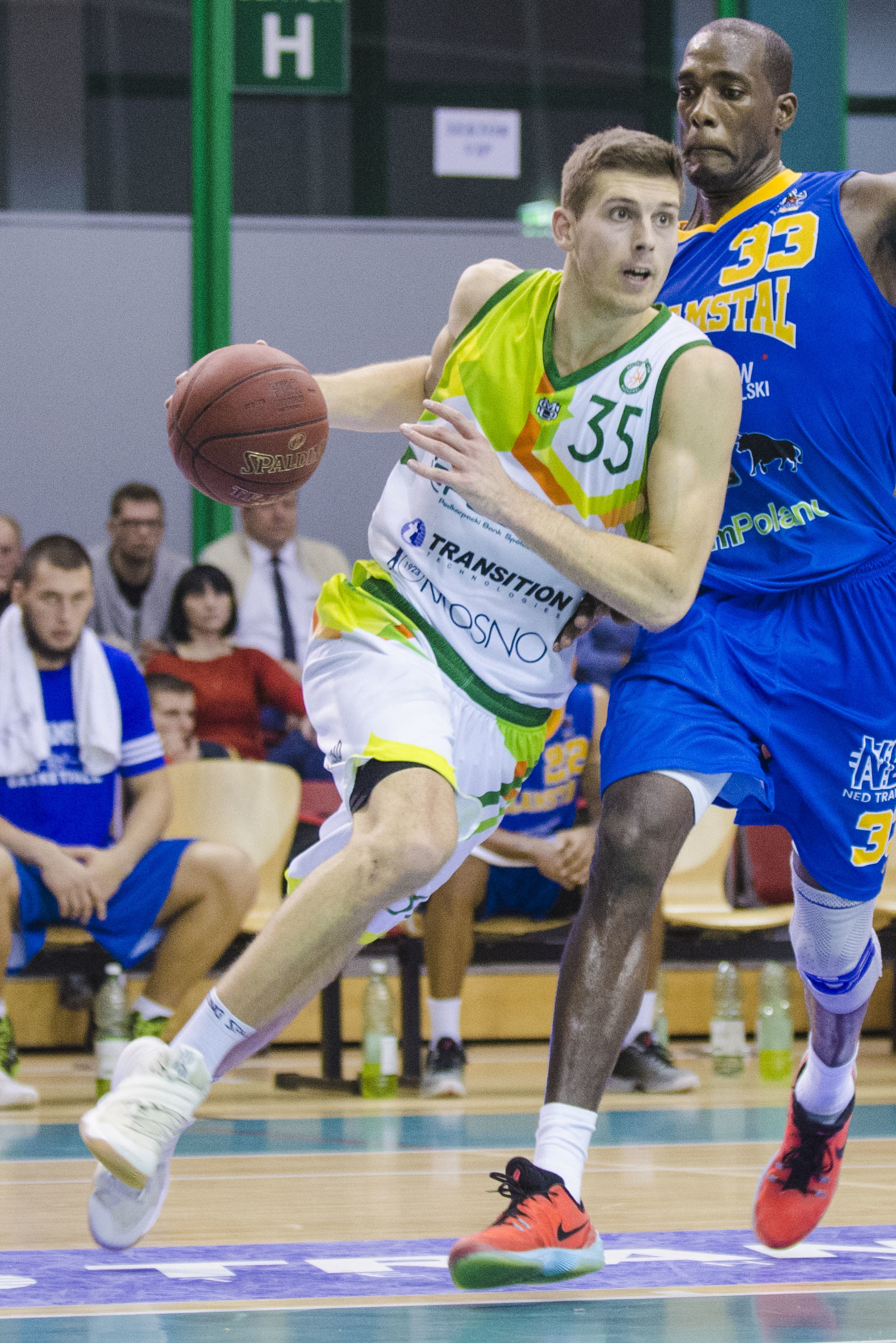 Image of Chris Czerapowicz (#35) during a game in 2016.